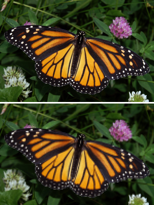 An illustration of the difference between lossless and lossy, dramatic yes, but an apt description.